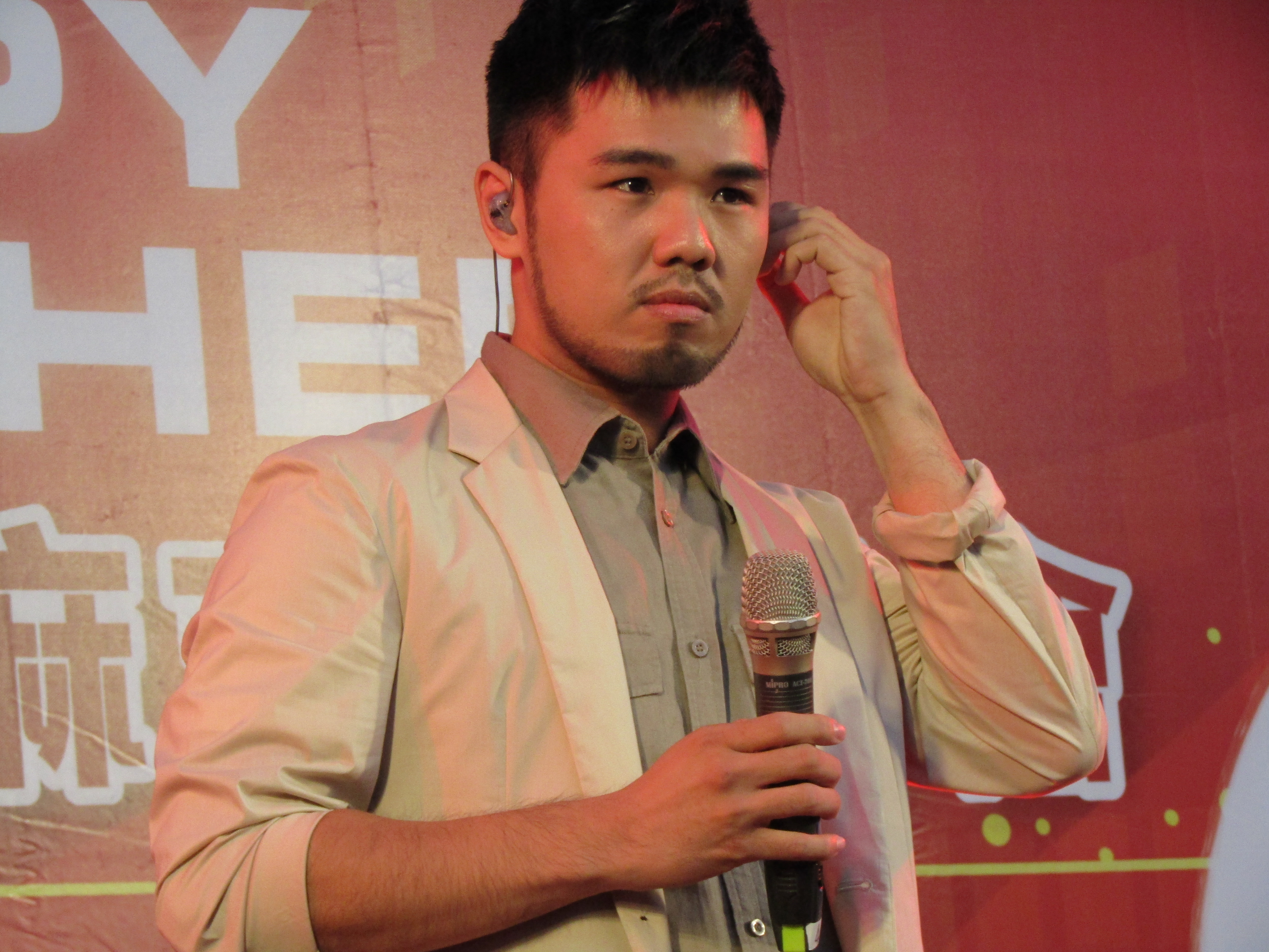 Max Lin is in Huashan 1914 Creative Park